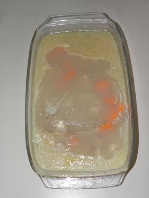 cold leg soup (regel krusha)